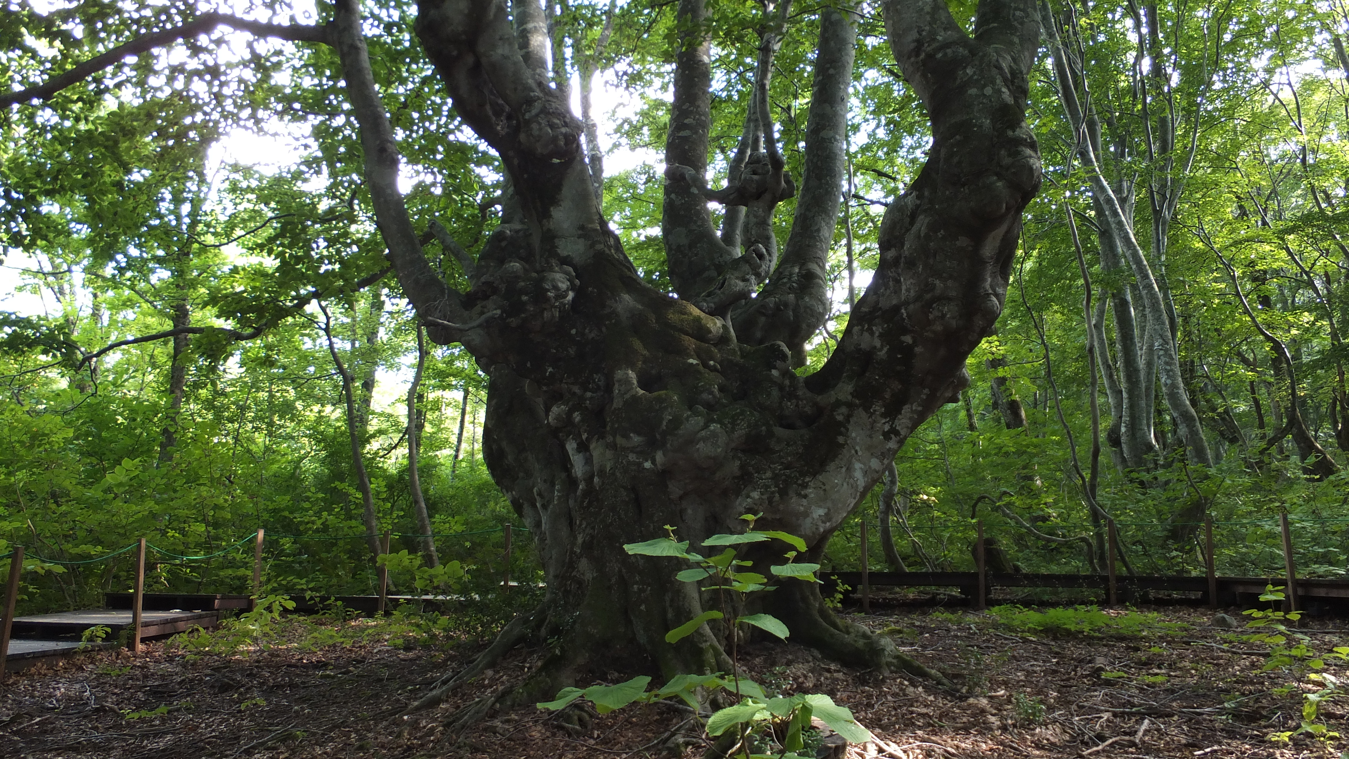 The "Agariko-daiou", a huge Japanese beech tree in Nikaho, Akita, Japan